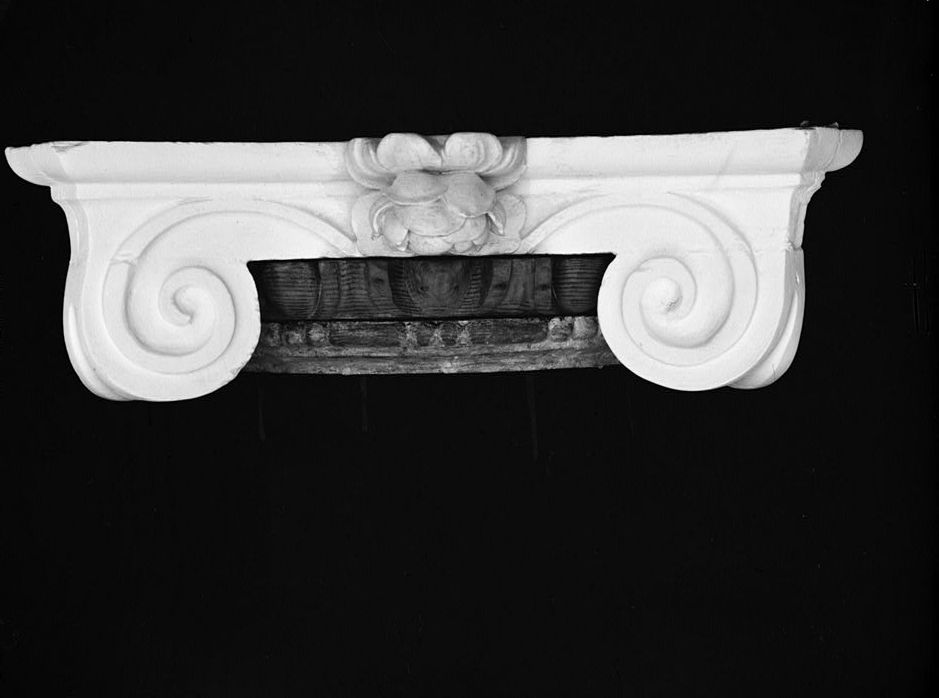 Detail of Entrance Decoration, Capital Volutes (Under Restoration), Hammond-Harwood House, 19 Maryland Avenue & King George Street, Annapolis, Anne Arundel County, MD